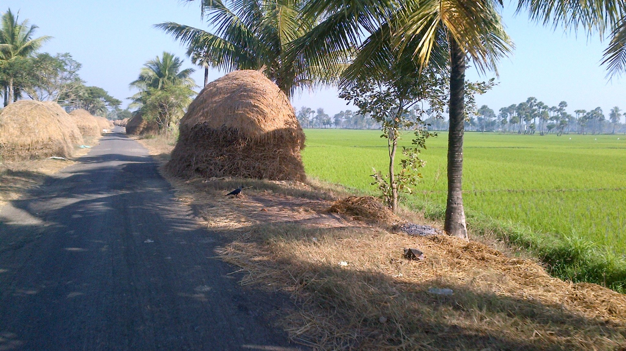 Crops at summer